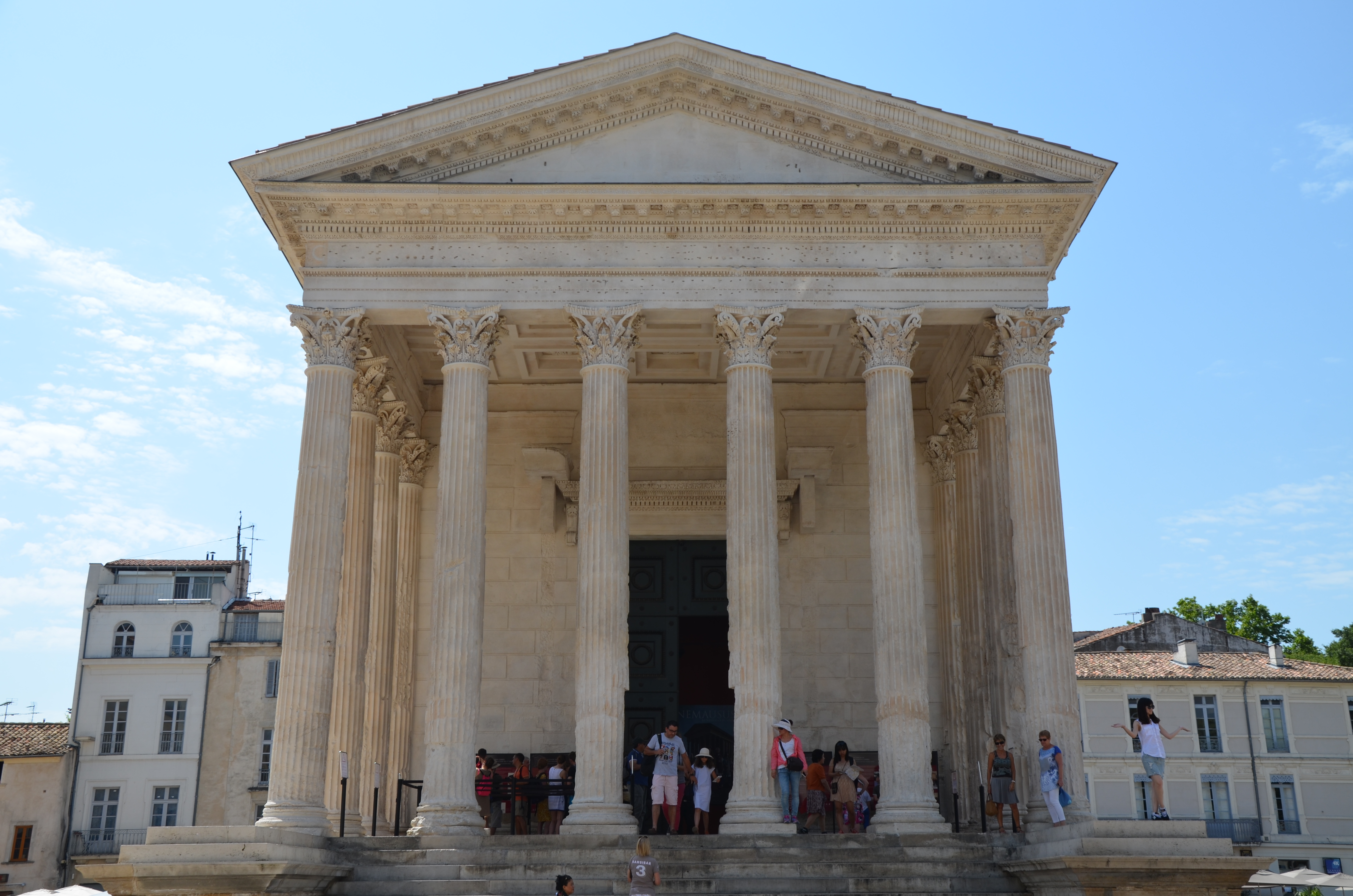 The Maison Carrée, 1st century BCE Corinthian temple commissioned by Marcus Agrippa, Nemausus (Nîmes, France)